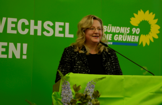 Antje Hermenau at the Saxon party conference of Bündnis 90/Die Grünen in Dresden